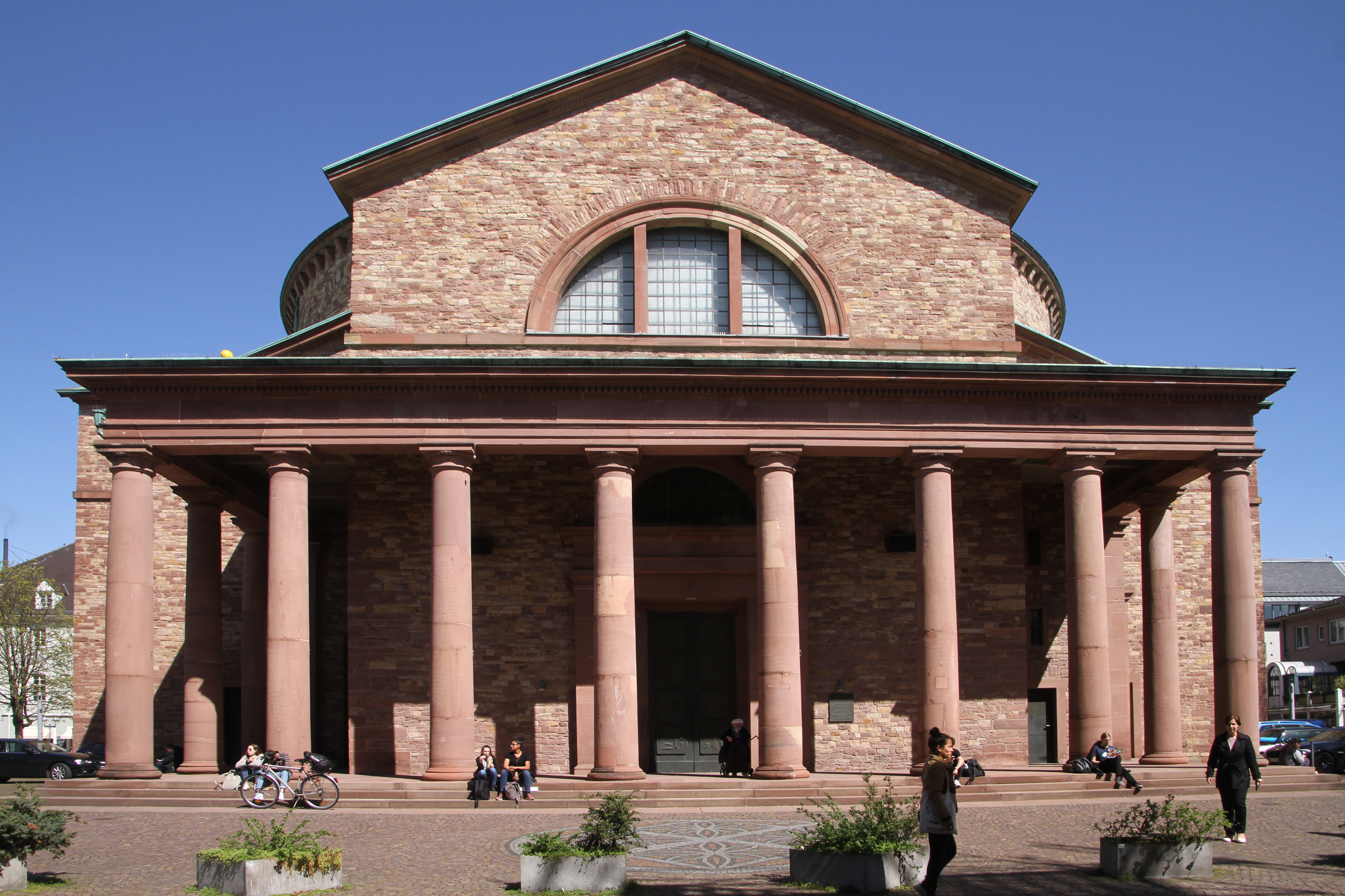 Church of St. Stephan in Karlsruhe.